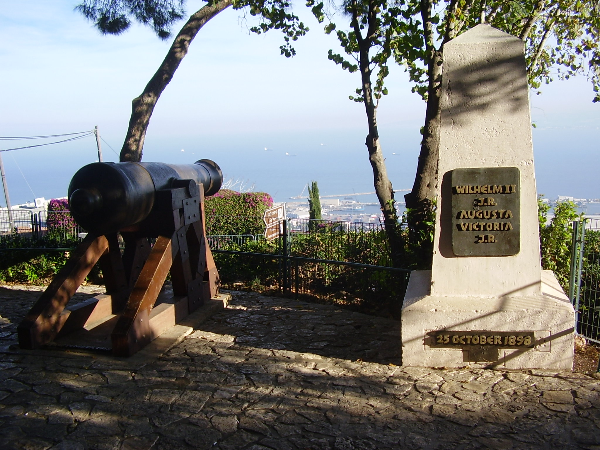 kaiser wilhelm the second obelisk on mount carmel in haifa, israel אובליסק הקיסר וילהלם השני במרומי הכרמל בחיפה